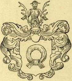 Coat of Arms Nałęcz from reprint of "Nomenclator" by Wojciech Wiiuk Kojałowicz, orginal work from 1658, reprint from 1905